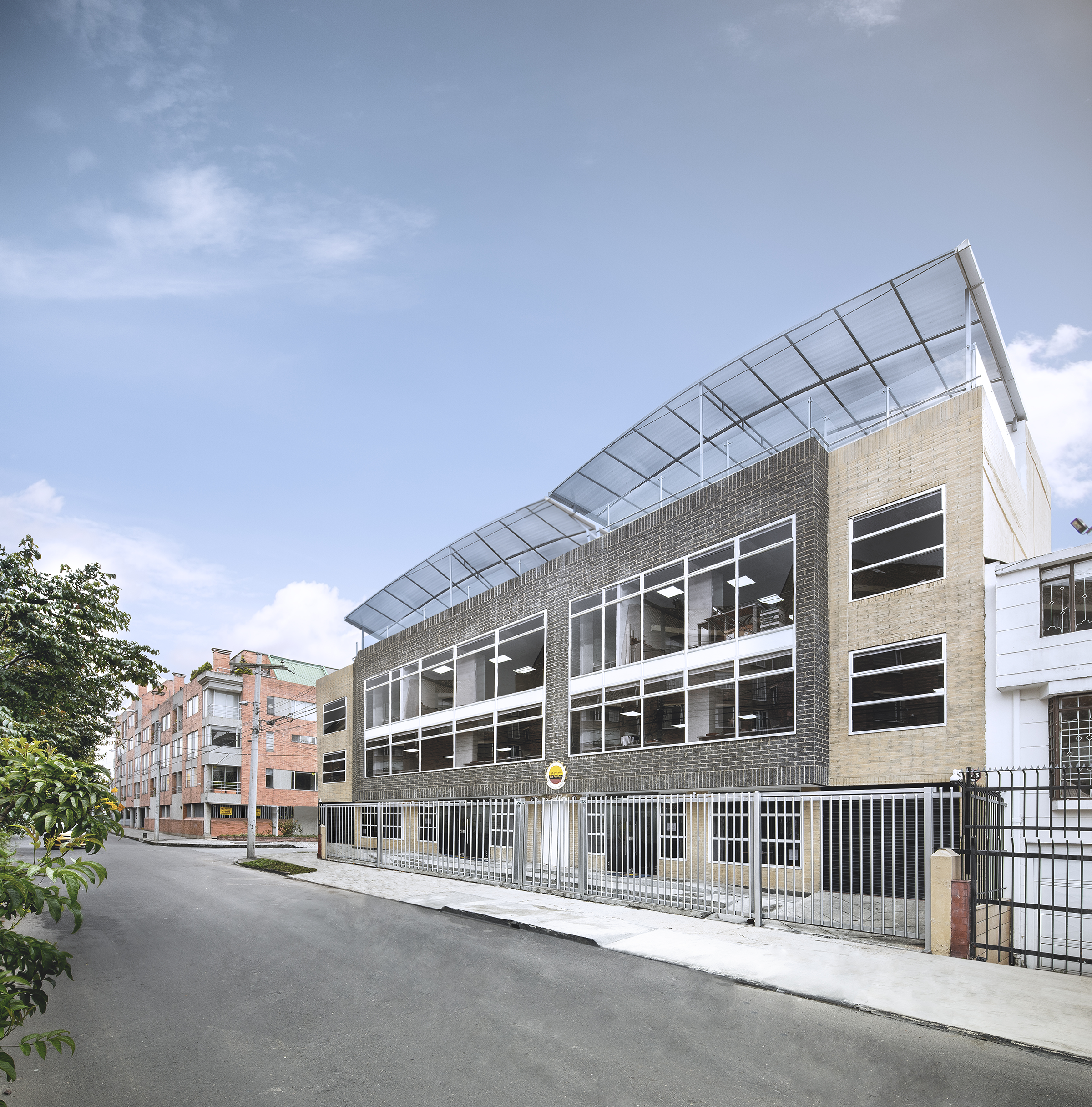 Automóvil Club de Colombia - Bogotá